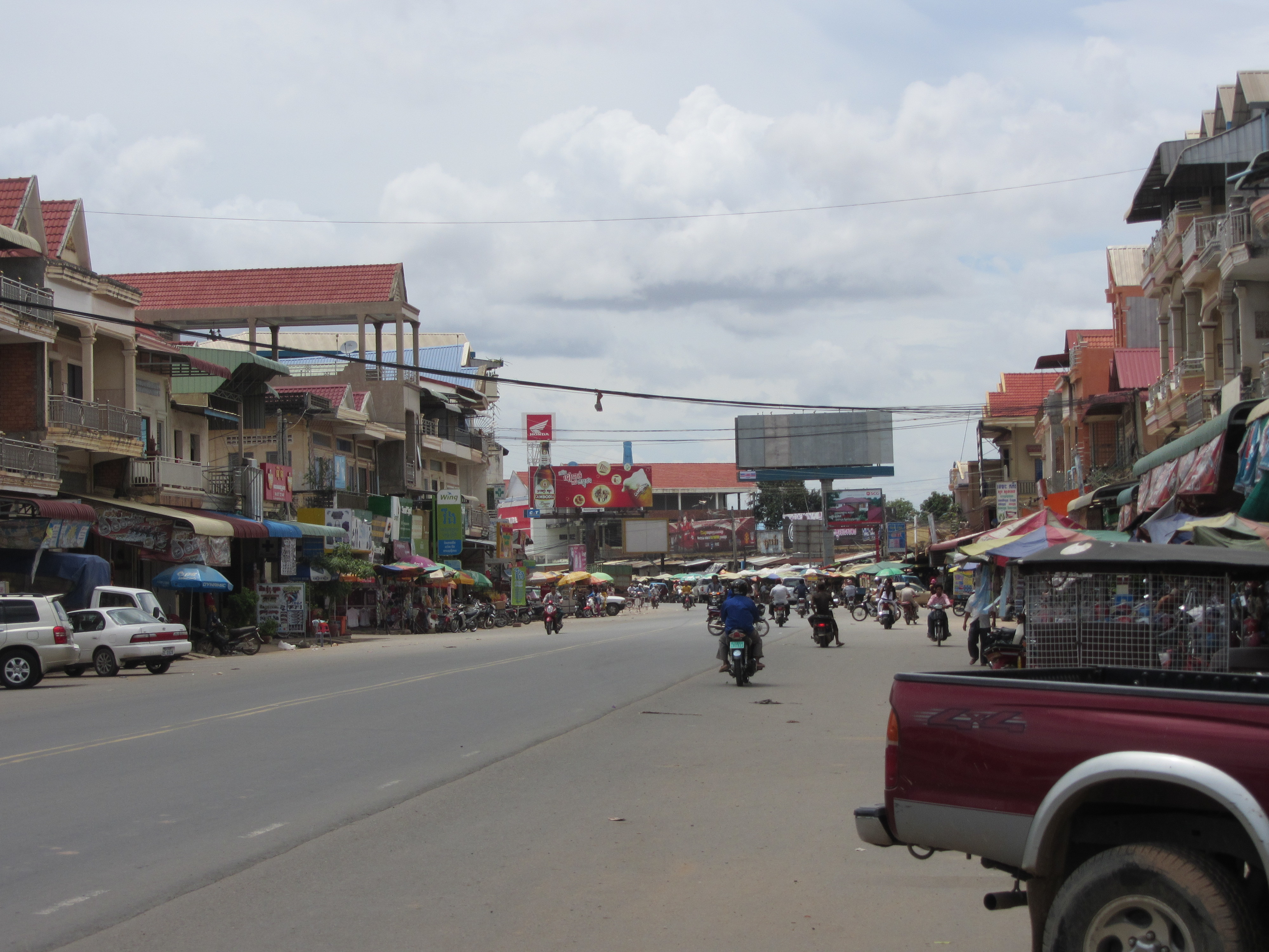 Ko kir Market Kien Svay District